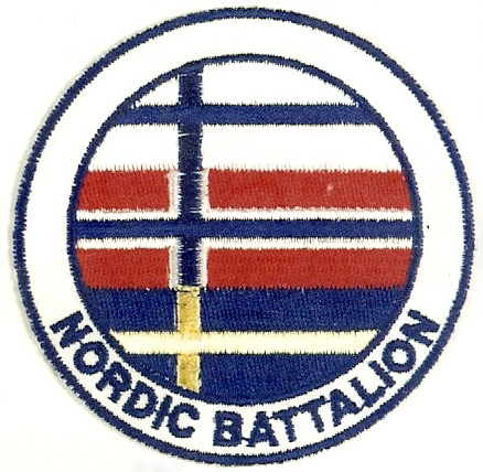 Battalions insigna